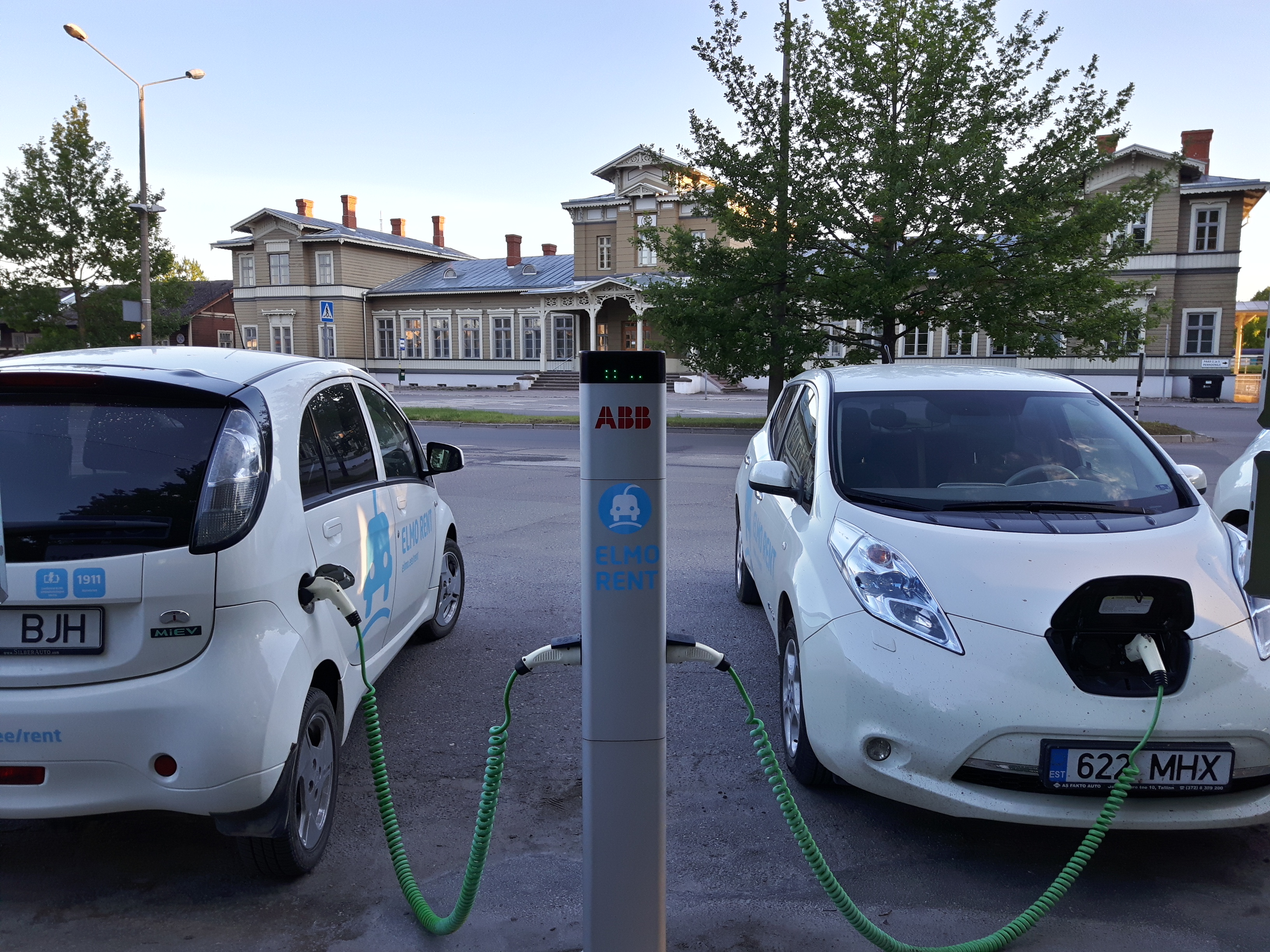 Electric car rental outside of (on the opposite side of the street from) Tartu railway station.